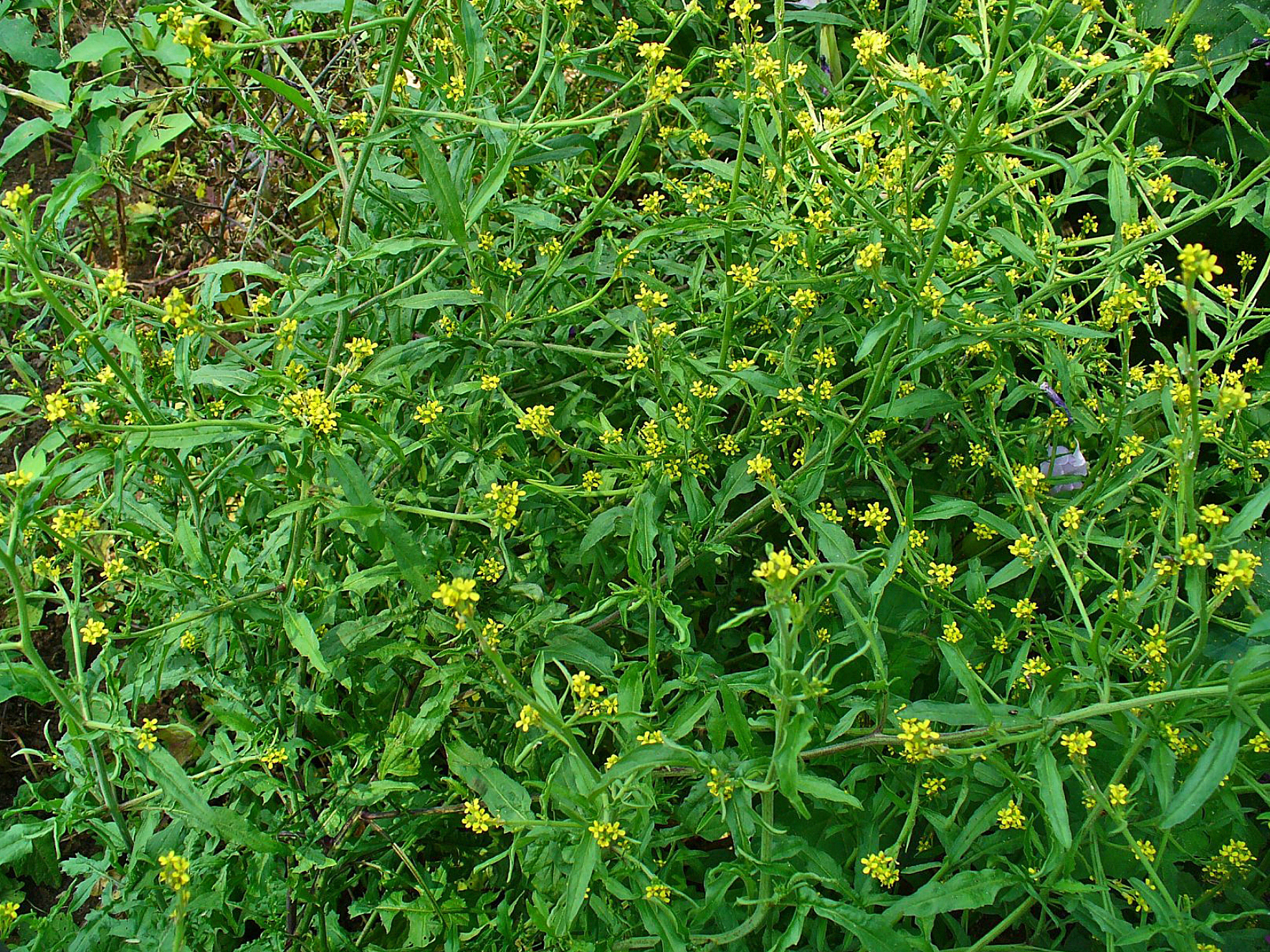 Sisymbrium officinale, Brassicaceae, Hedge Mustard, habitus.